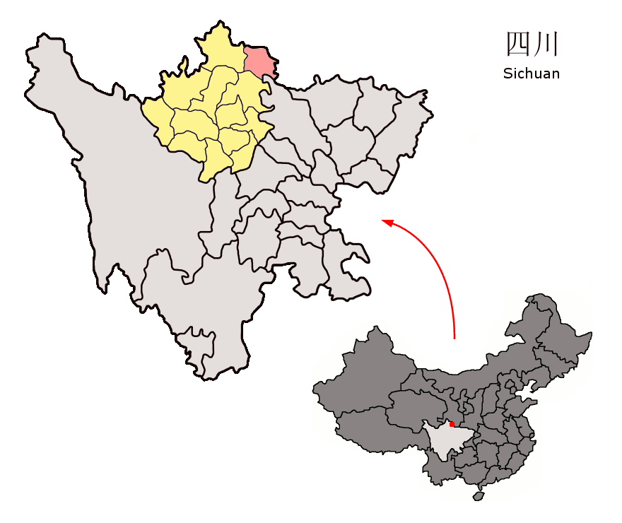 Location of Jiuzhaigou County (pink) and Ngawa Prefecture (yellow) within Sichuan province of China Map drawn in september 2007 using various sources, mainly : Sichuan province administrative regions GIS data: 1:1M, County level, 1990 Sichuan Counties map from